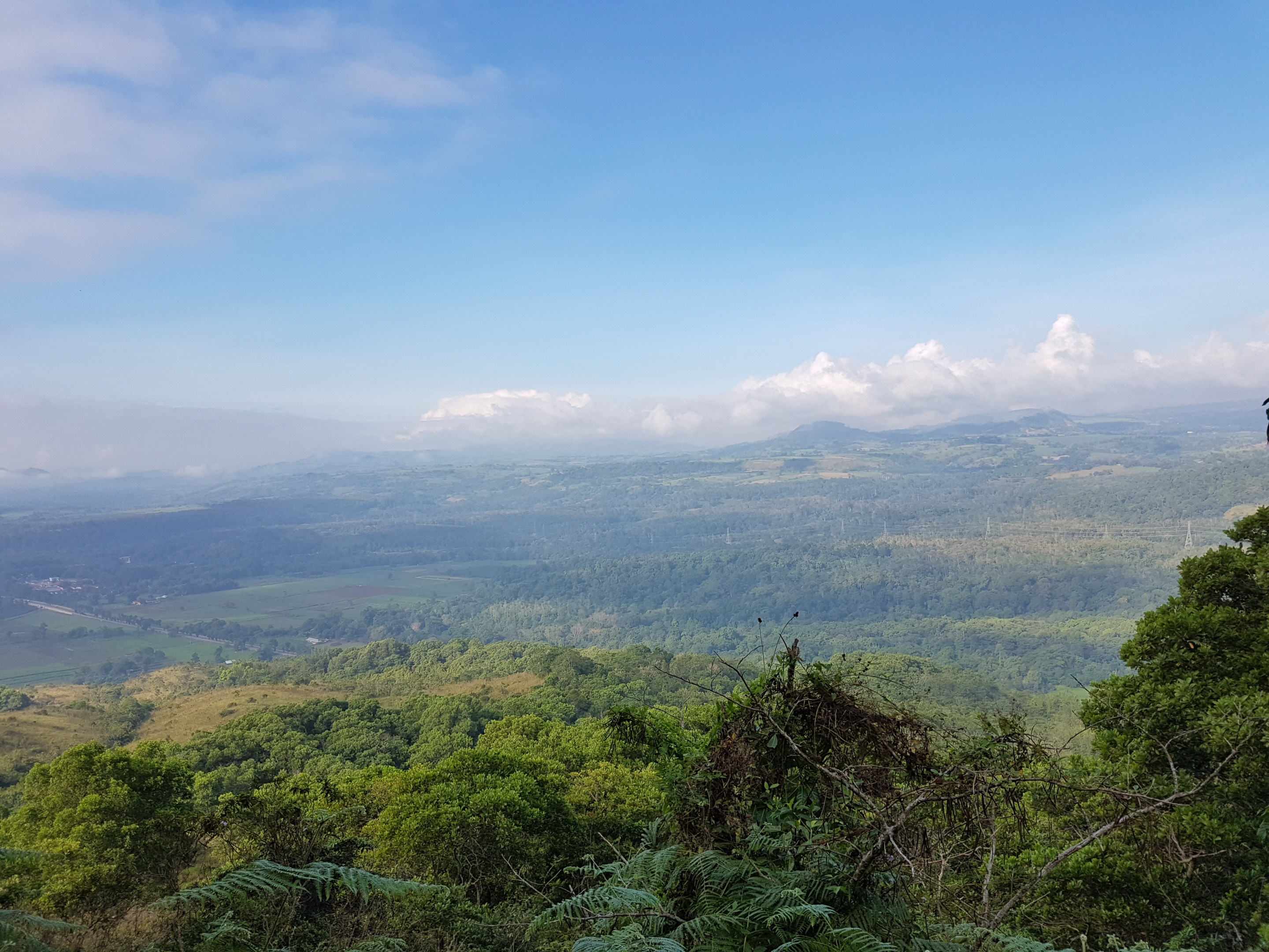 View of Musuan, Bukidnon, Philippines from Musuan Peak summit